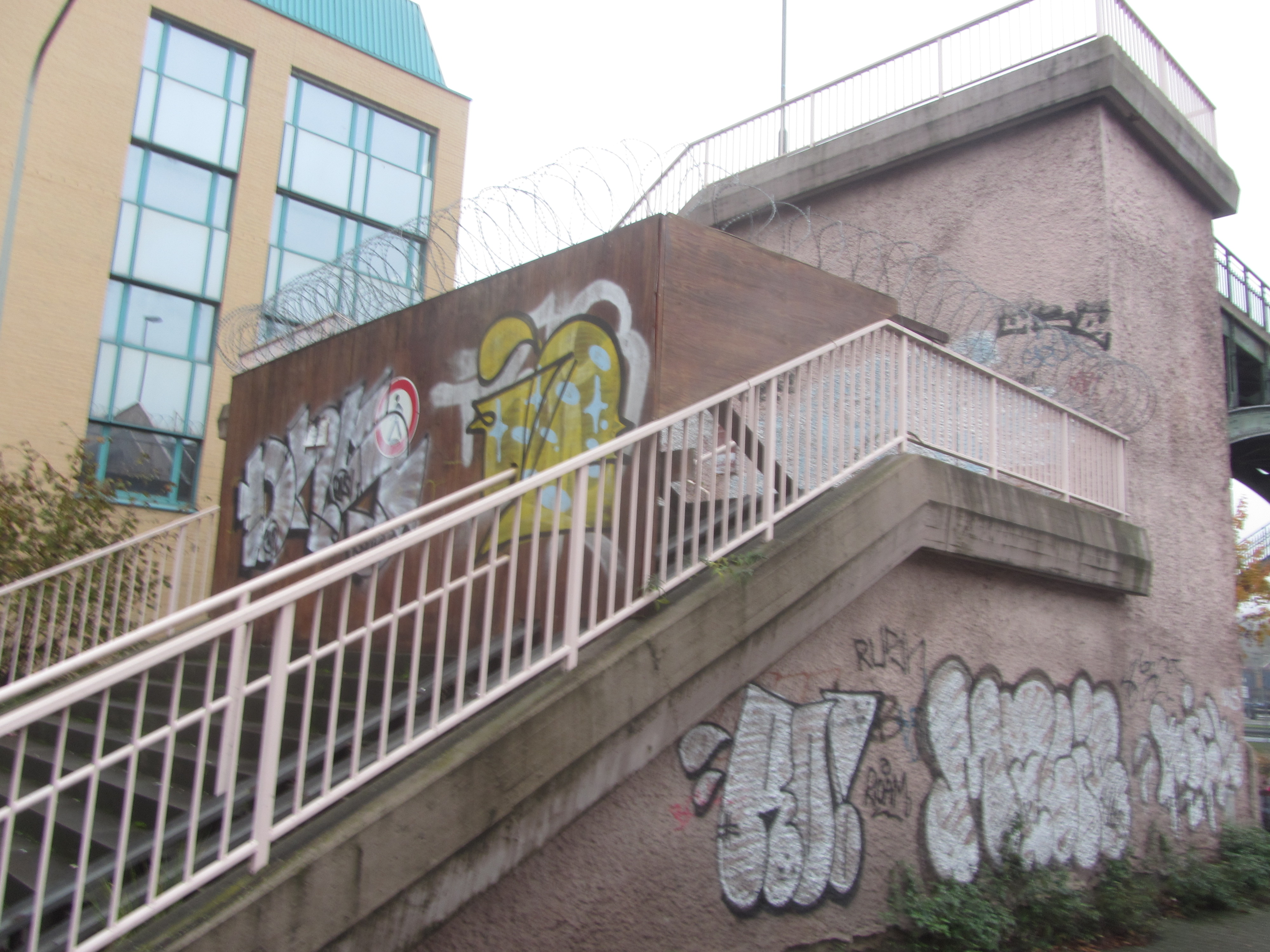 The footbridge Schwedlerbrücke in Frankfurt/Main is closed Deitsch: Die Fußgängerbrücke Schwedlerbrücke ist seit 2011 wegen schlechten Zustands geschlossen. Eine Wiedereröffnung ist nicht abzusehen.